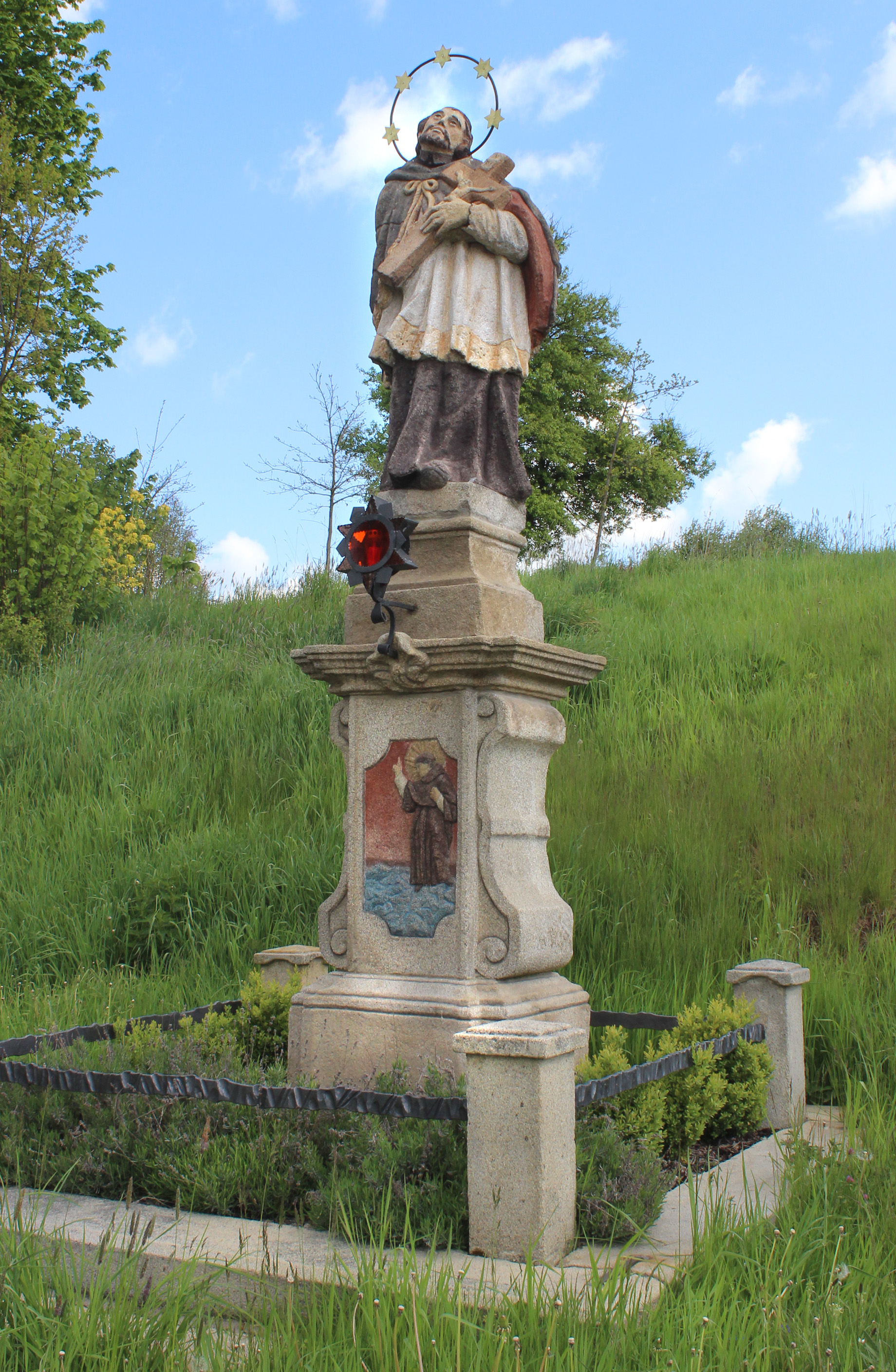 John of Nepomuk statue in Věžnice village, Czech Republic